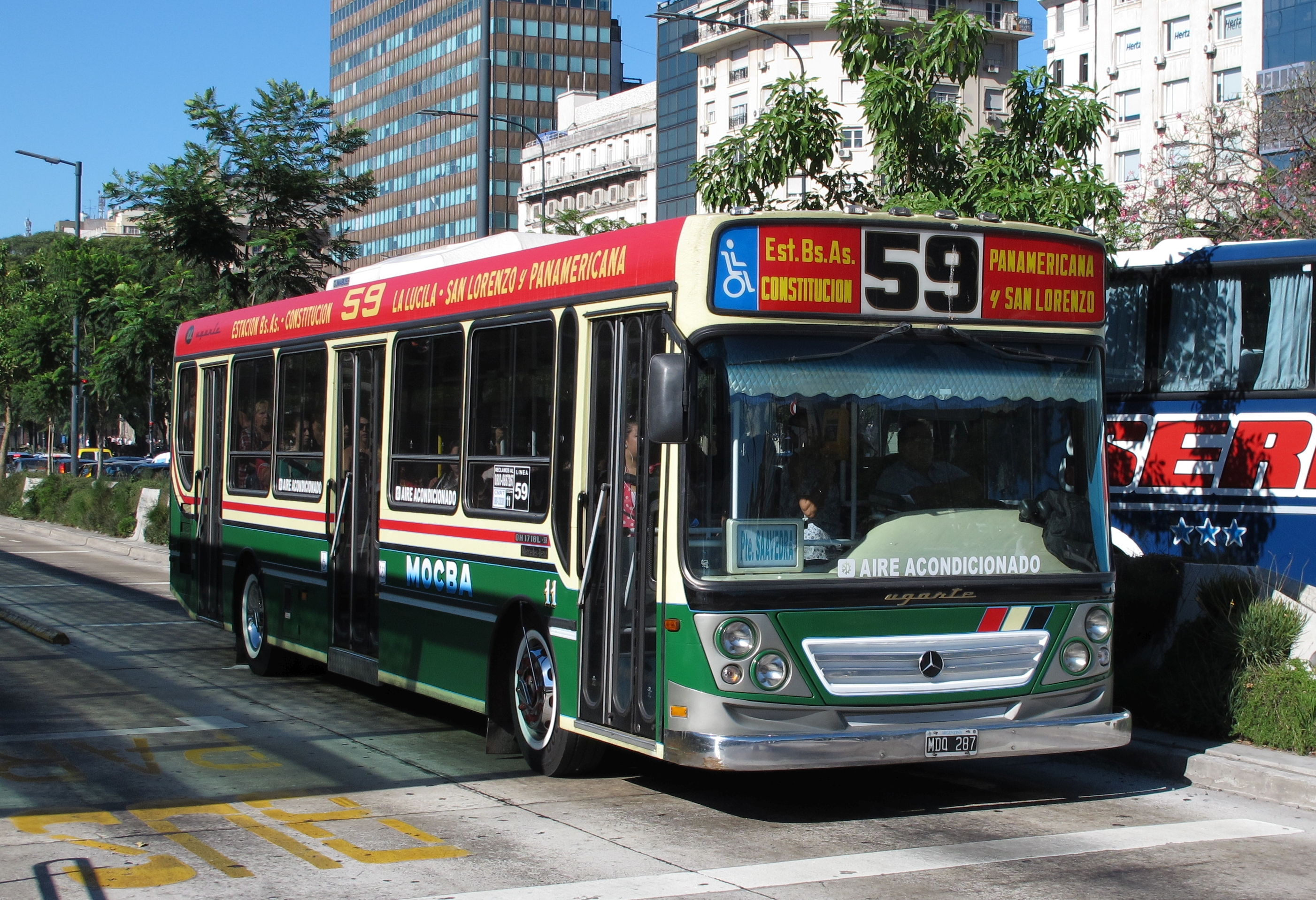 Buenos Aires - Ugarte Mercedes-Benz OH 1718L bus #11 on line No. 59 (Av 9 de Julio)